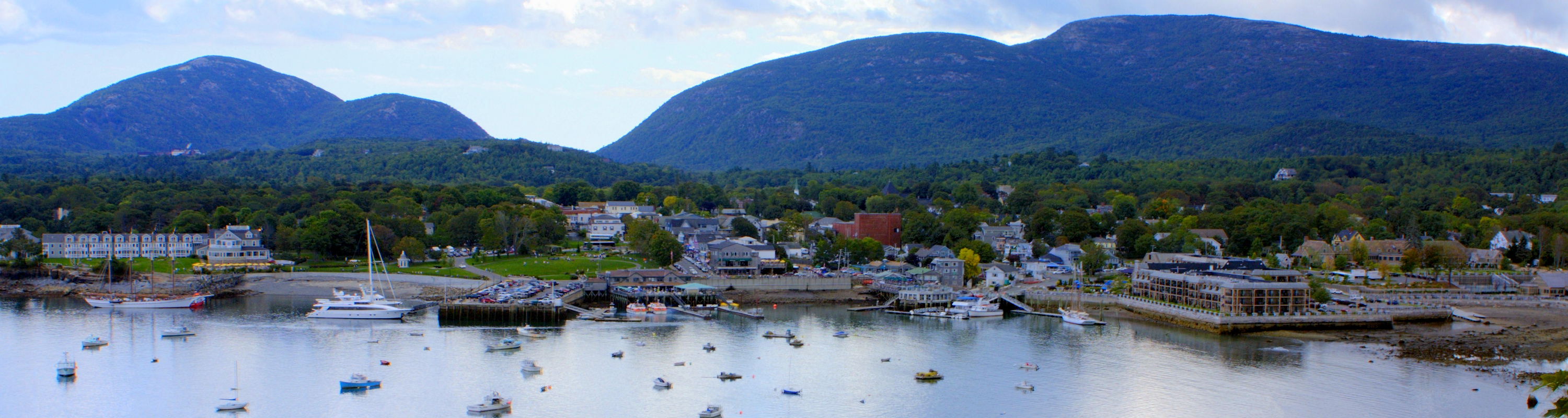 Bar Harbor and Cadillac Mountain (on the right) from Bar Island, Maine, United States. Champlain Mountain is to the left.